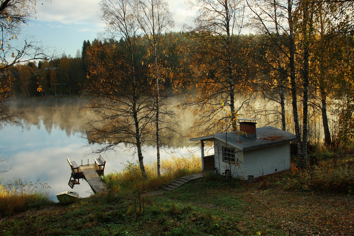 Western Finland, Oct 2011